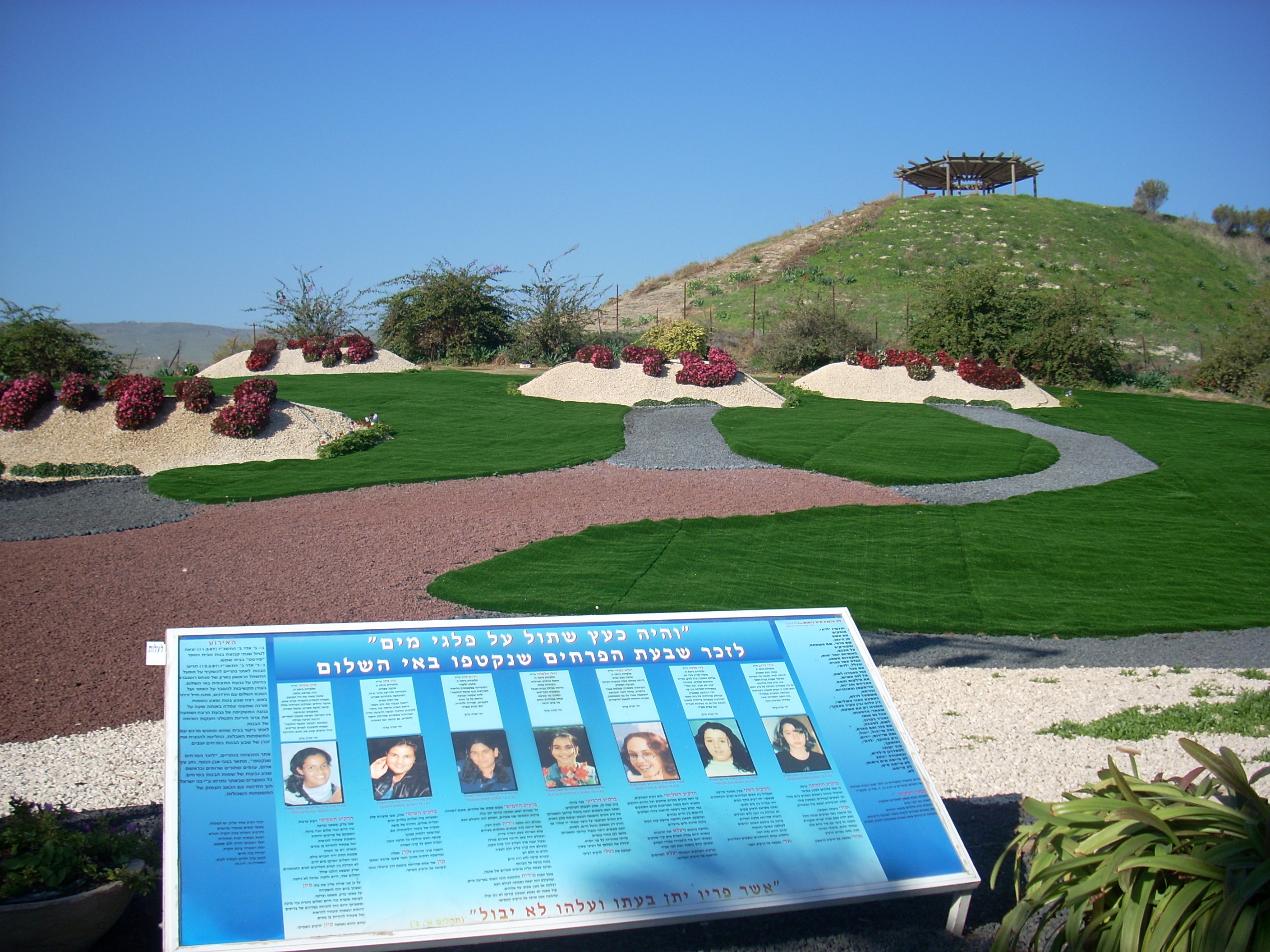 J. Miller, Taken in January 2008 in person in Israel.